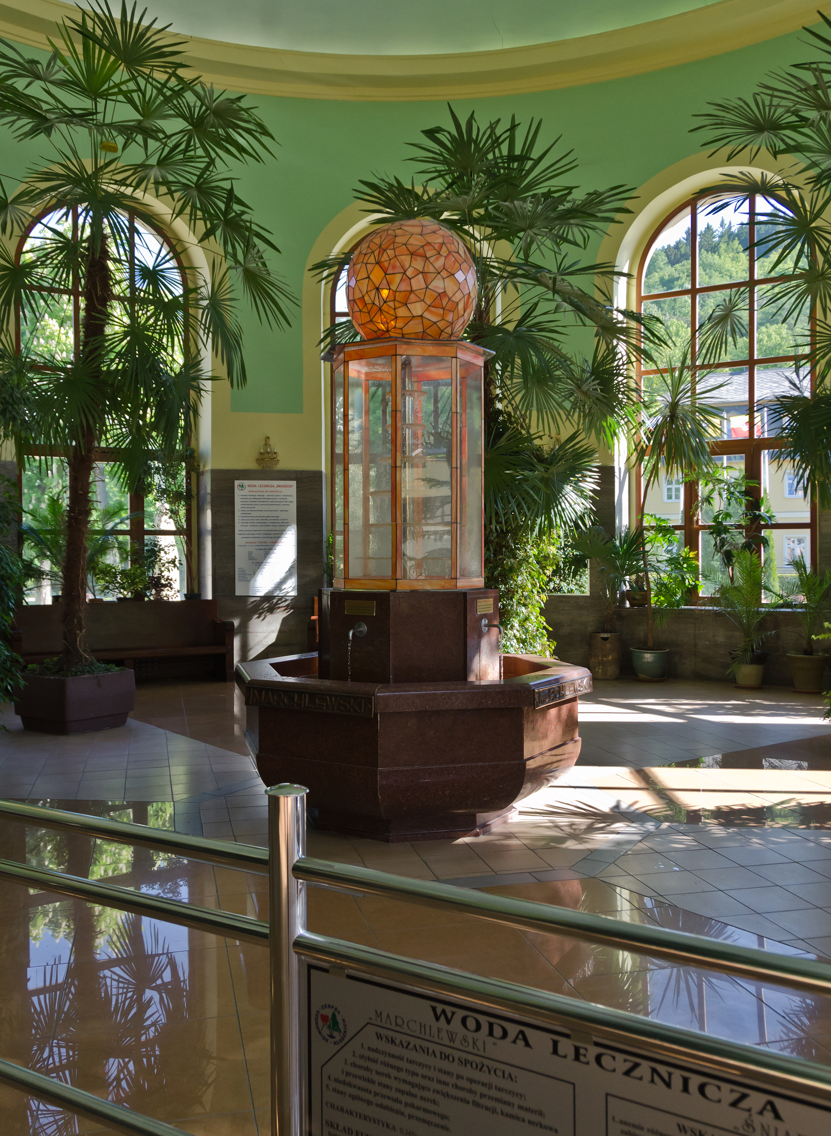 Interior of drinking house in spa park, in Kudowa-Zdrój